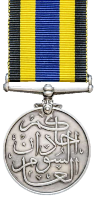 General Service Medal of Anglo-Egyptian Sudan, for small campaigns, 1933-40